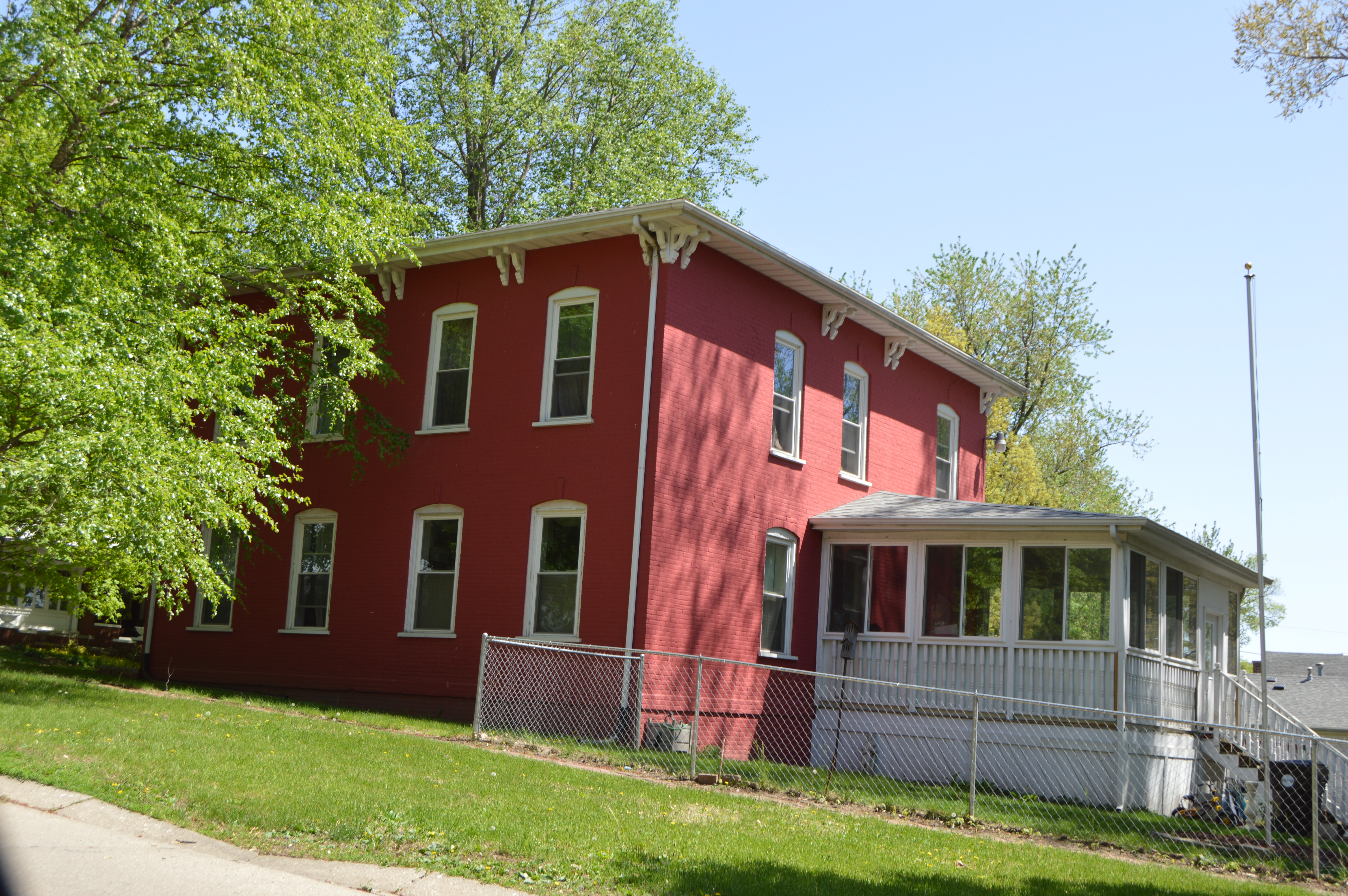 Comprehensive view of the Theodore H. O. Mattfeldt House, located at 202 S. Marion Street in Mount Pulaski, Illinois, United States. Built in 1860, it is listed on the National Register of Historic Places.